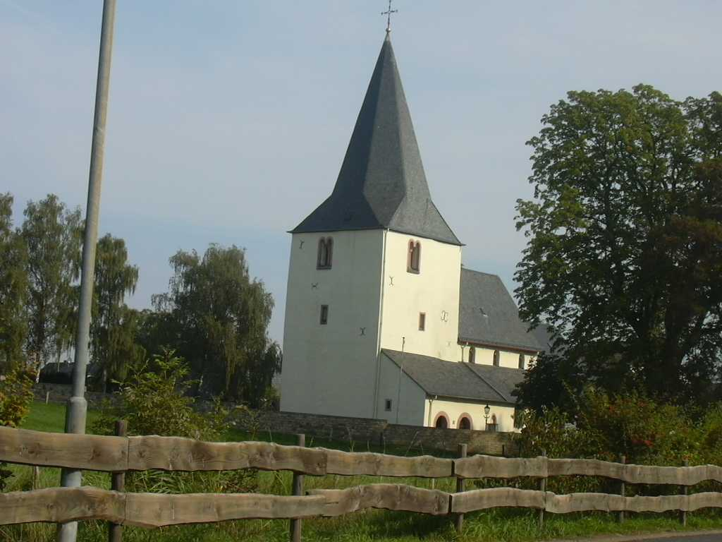 Vlatten (Heimbach) Kirche own work papa1234 2006-09-16